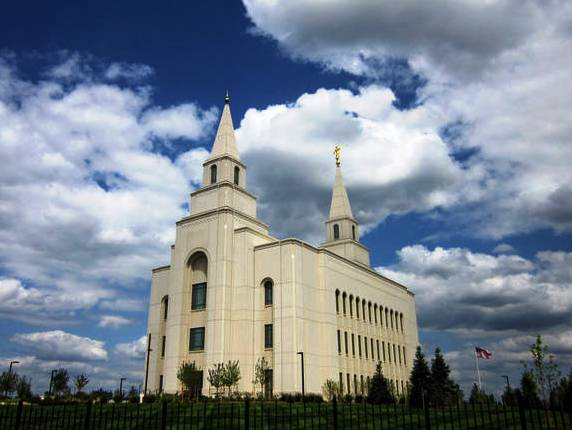 Photo of the Kansas City Missouri Temple, the 137th operating temple of The Church of Jesus Christ of Latter-day Saints (LDS Church), located in the Greater Kansas City area.